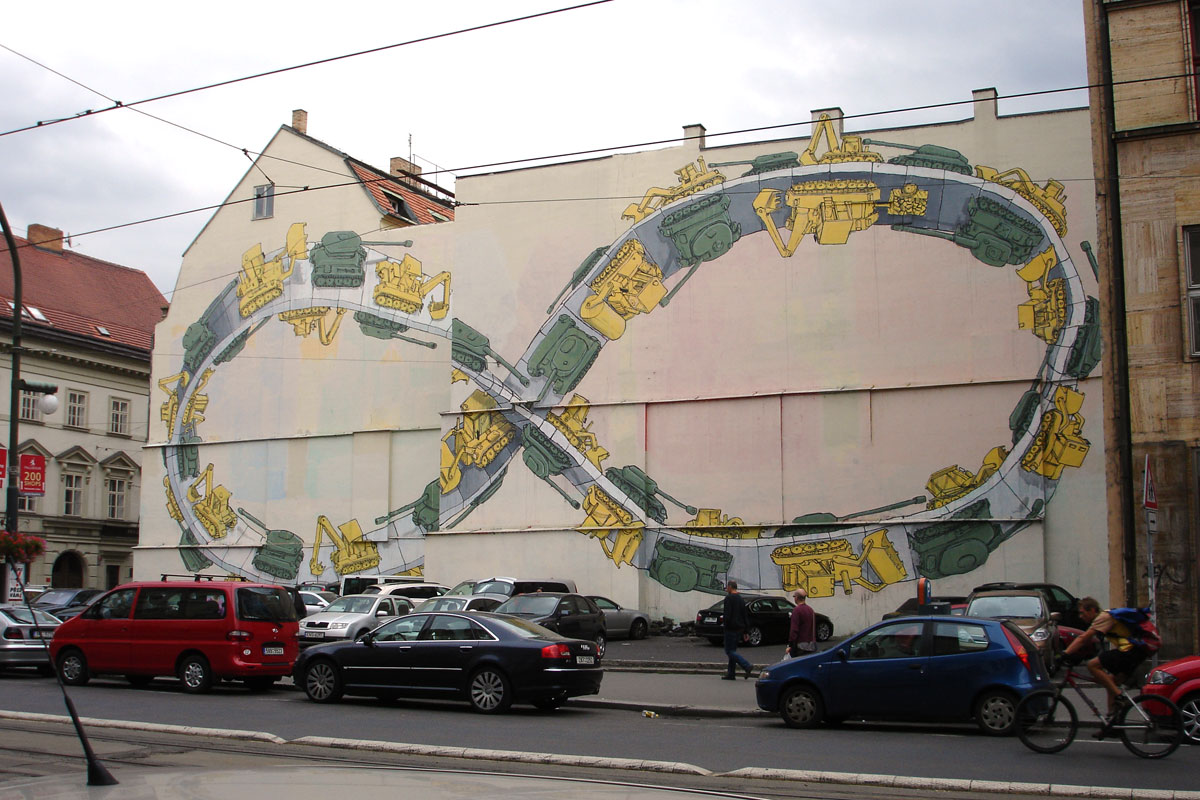 Mural by BLU - "Gaza Strip" in Praha